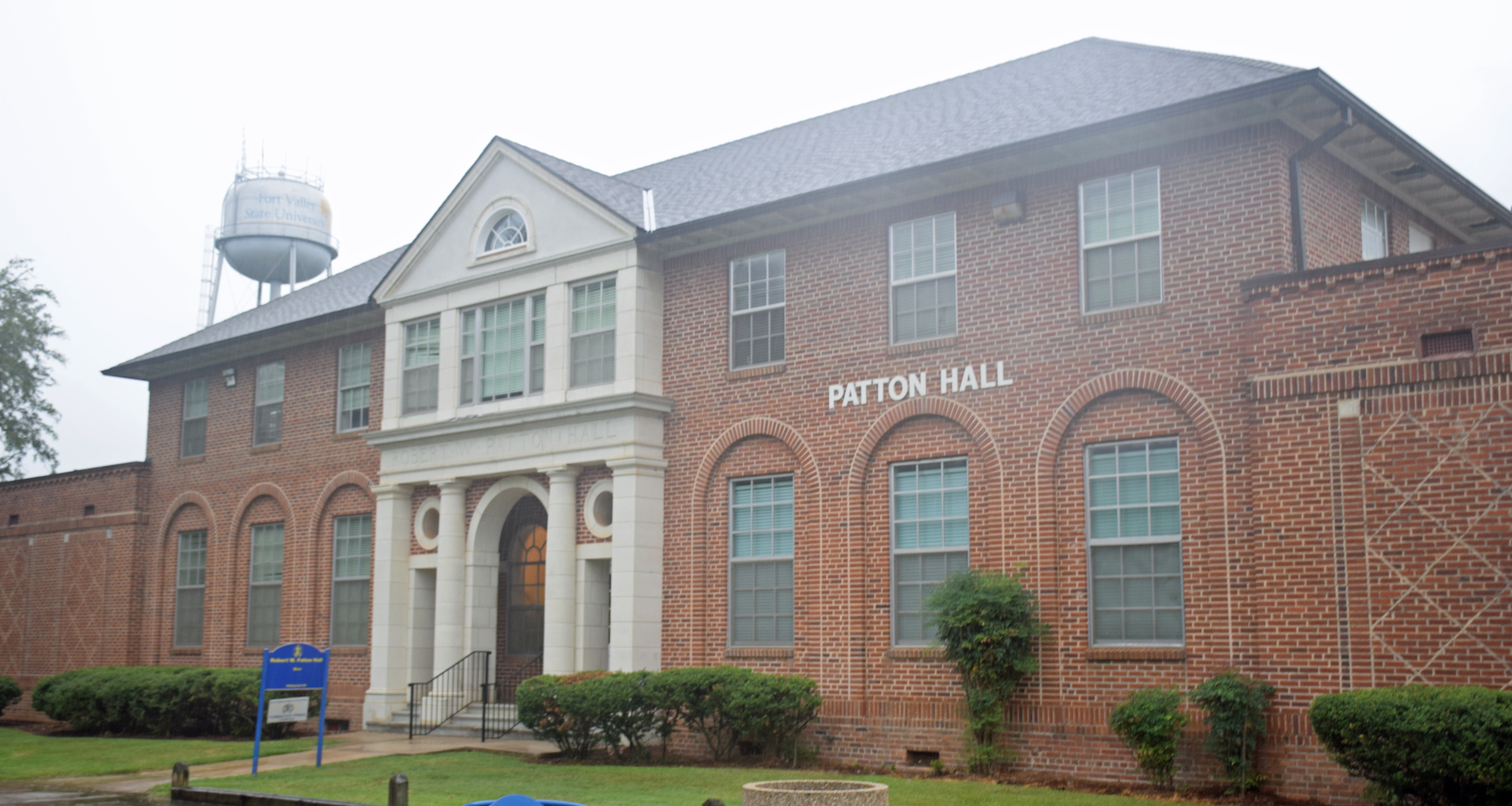 Patton Hall at Fort Valley State University, Fort Valley, Georgia, US